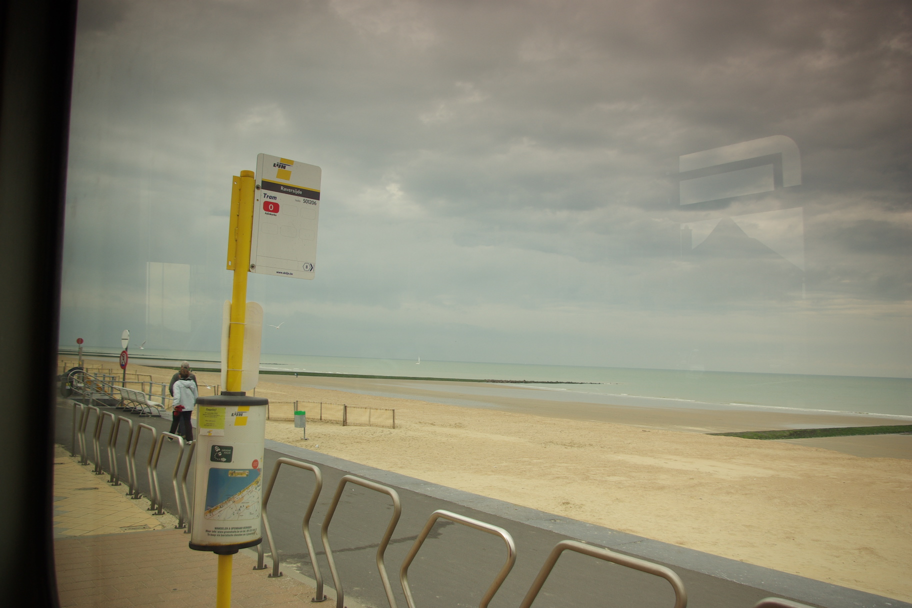 Raversijde Station of the Kusttram in Oostende